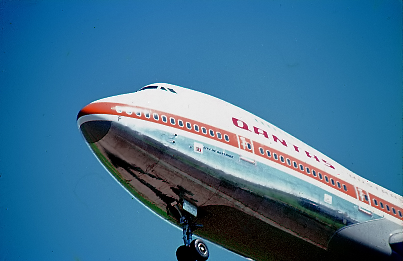 Qantas Boeing 747 at Christchurch Int'l Airport